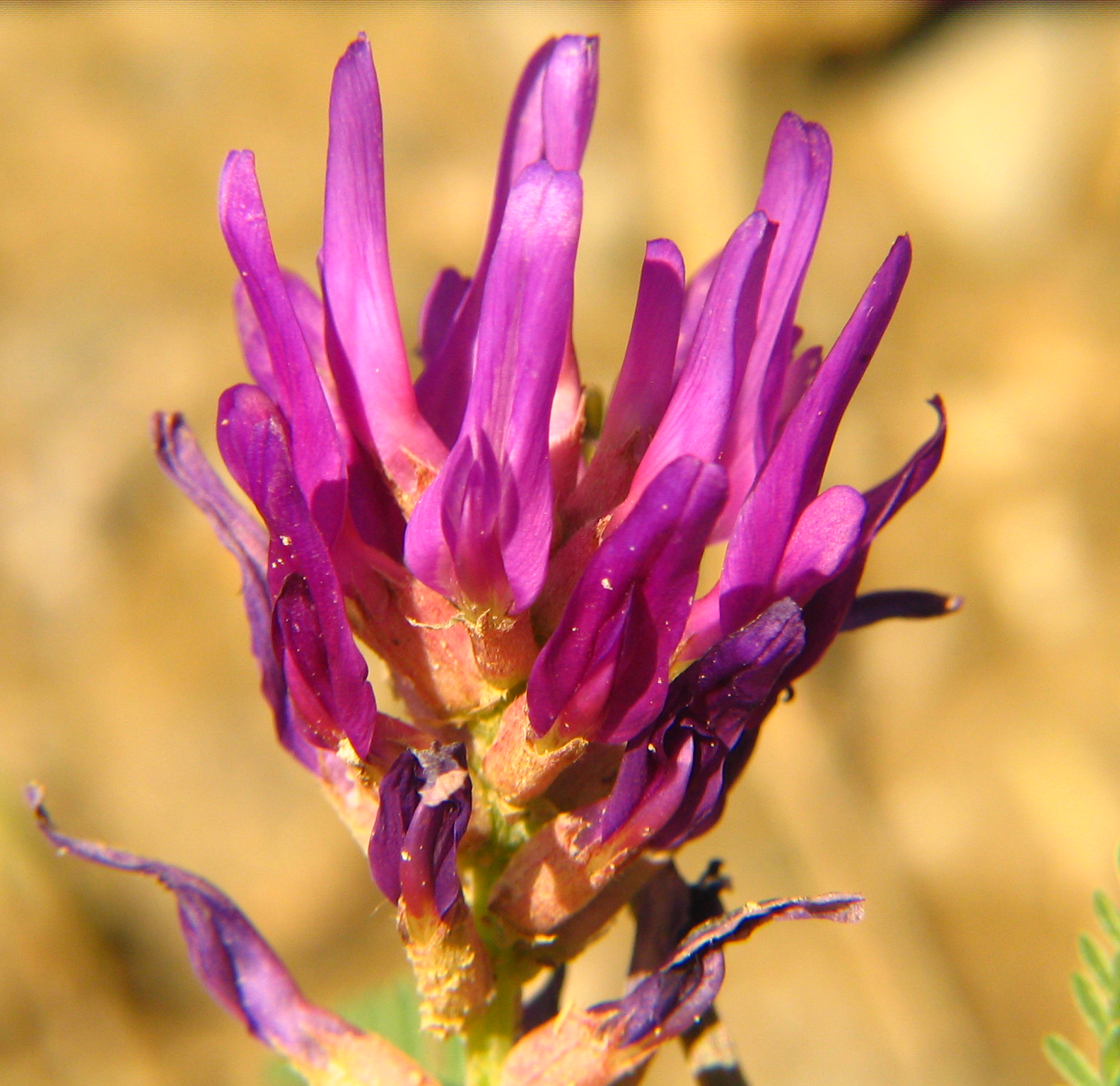 Astragalus danicus, presumably (confirmation for identification required)